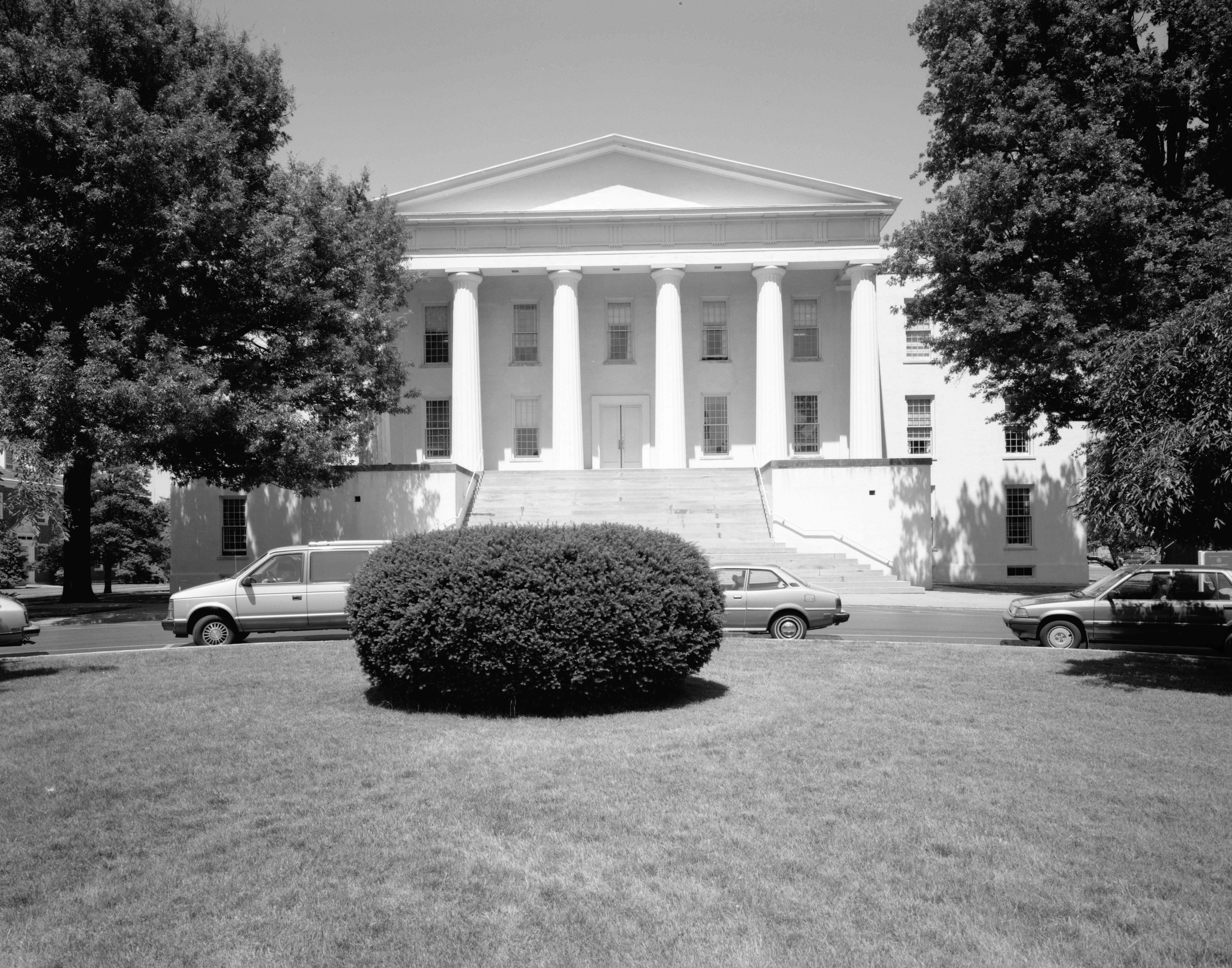 Front of Old Morrison, located along Third Street on the campus of Transylvania University in Lexington, Kentucky, United States. Built in 1831, it is a National Historic Landmark.